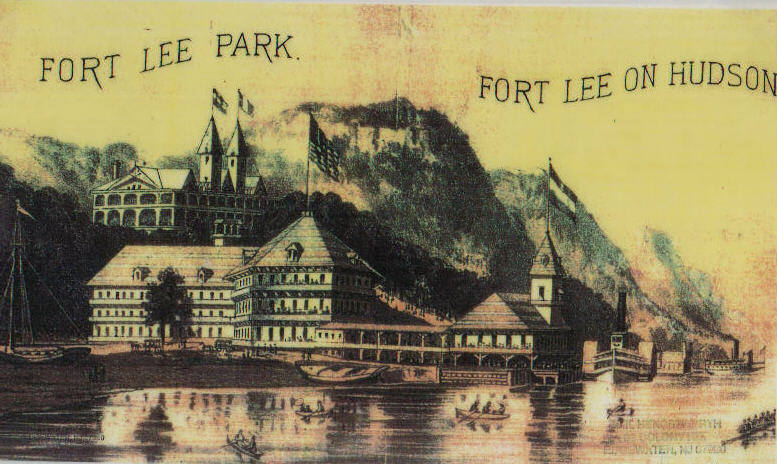 Tinted postcard of resort hotel, Fort Lee Hotel, located on the Hudson River near the border of the boroughs of Fort Lee and Edgewater, reached via Burdett's Landing in the 19th century and early 20th. Burned in early 20th century.